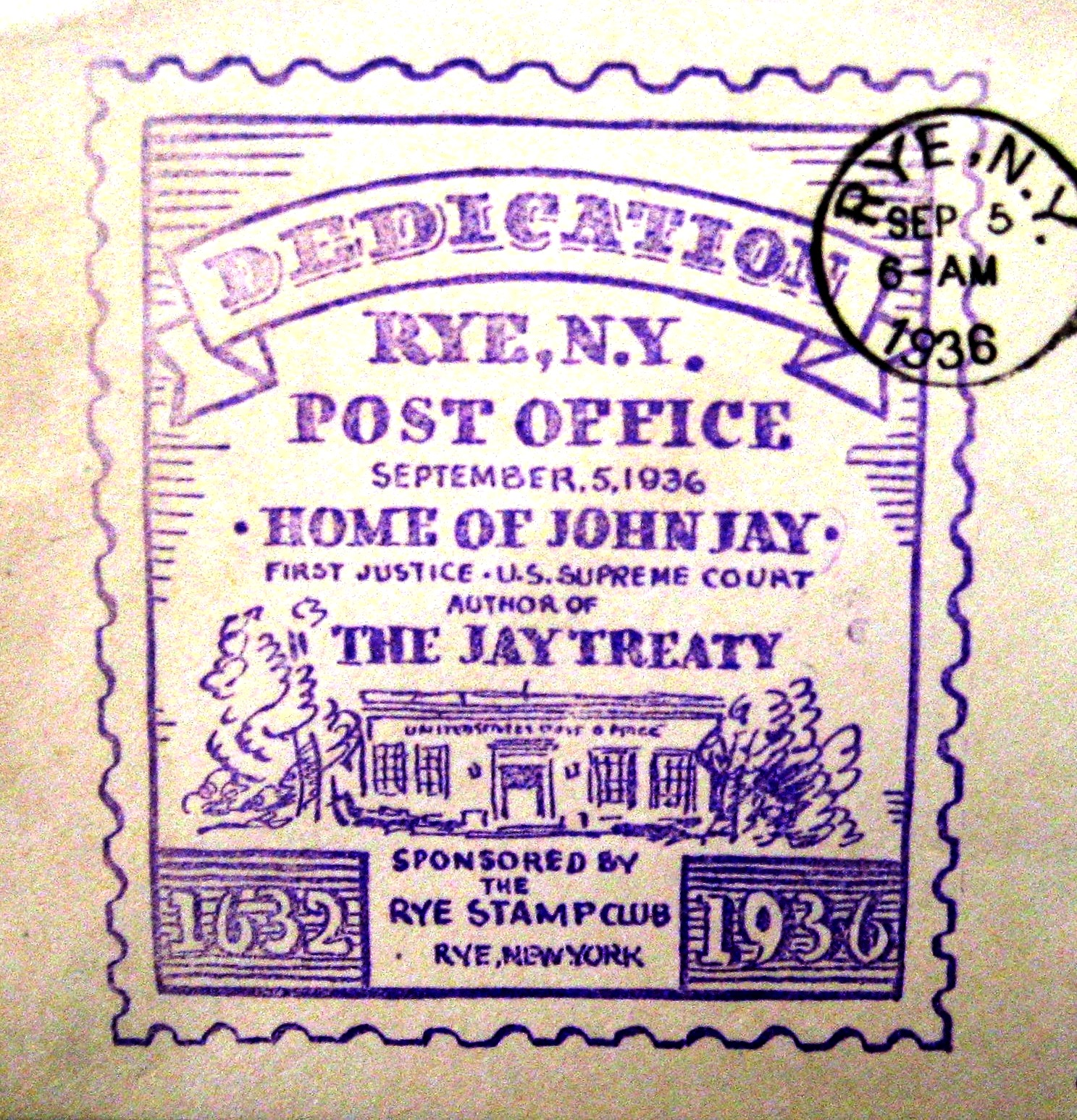 Photo of special cancellation stamp by Rye, NY Post Office on September 5, 1936 "Dedication, Rye, NY Post Office, September 5, 1936 Home of John Jay, First Justice, U.S. Supreme Court, Author of the Jay Treaty - Sponsored by the Rye Stamp Club"